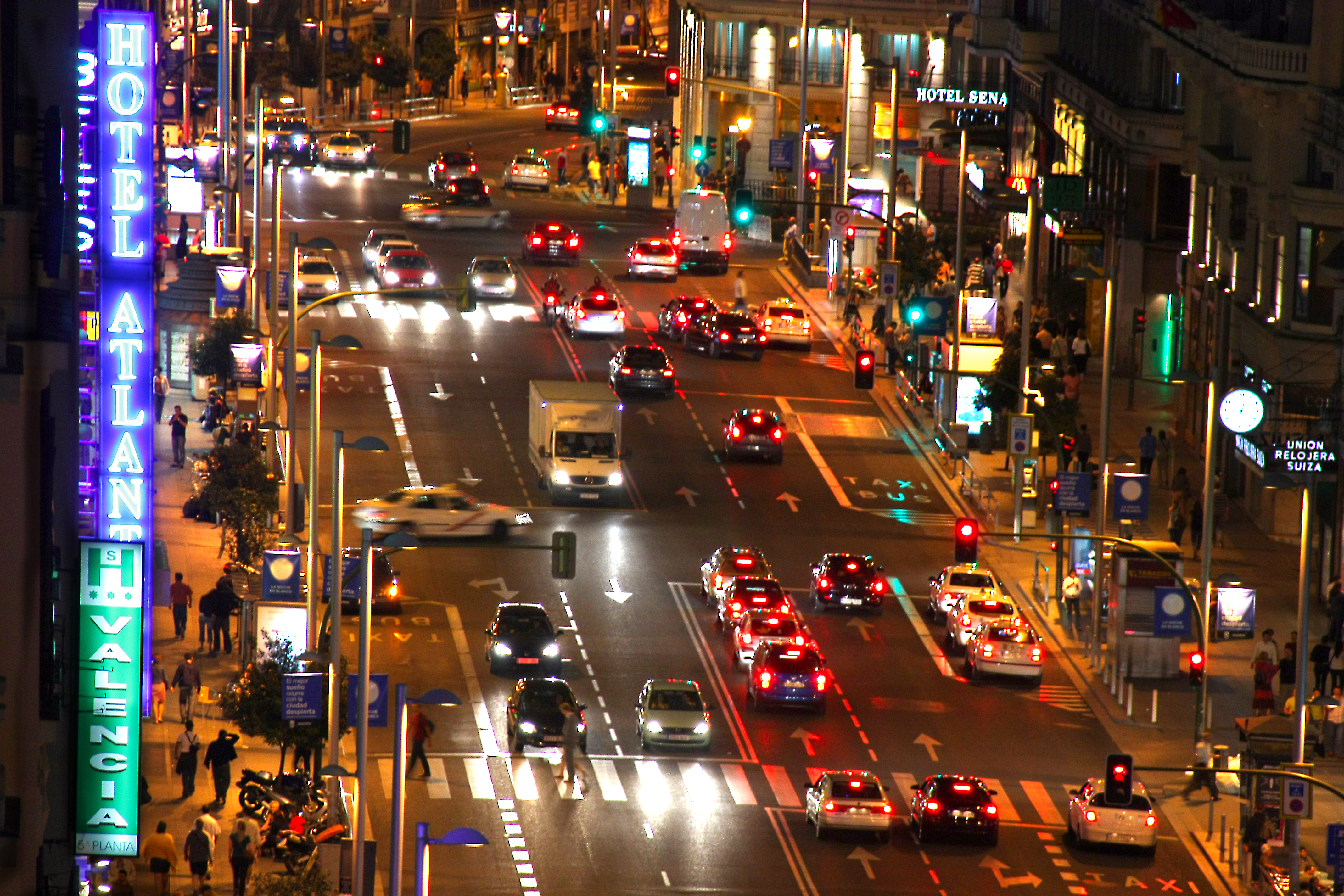 Night view of Gran Vía (a downtown avenue) in Madrid (Spain) from Edificio Carrión.